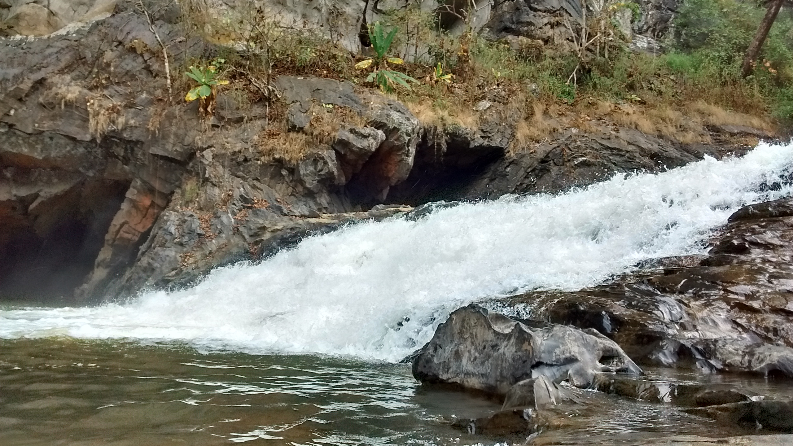 Syntheri Rock - Kali River Dandeli, Karnataka